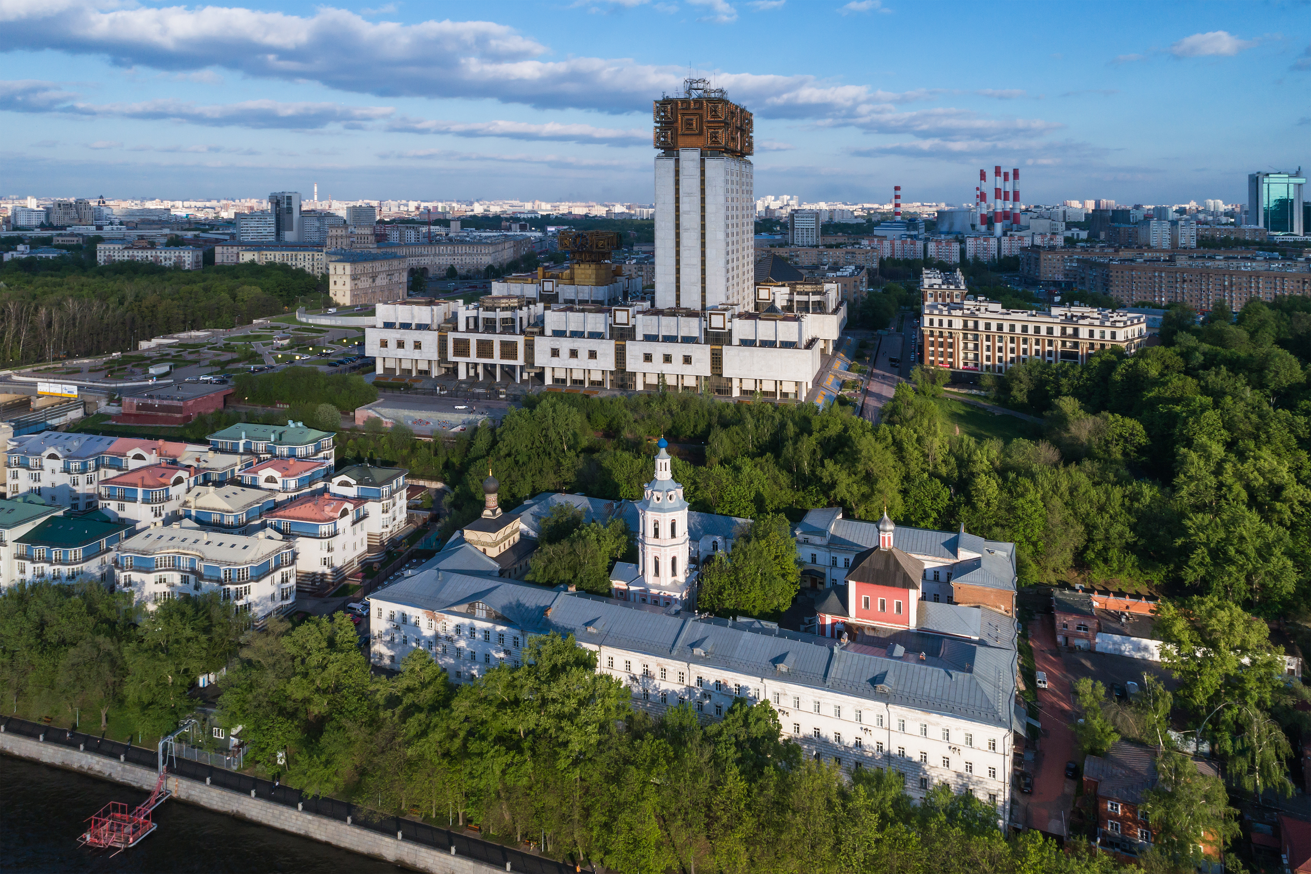 Aerial photo of Andreevsky Monastery and Academy of Science building in Moscow (Russia).